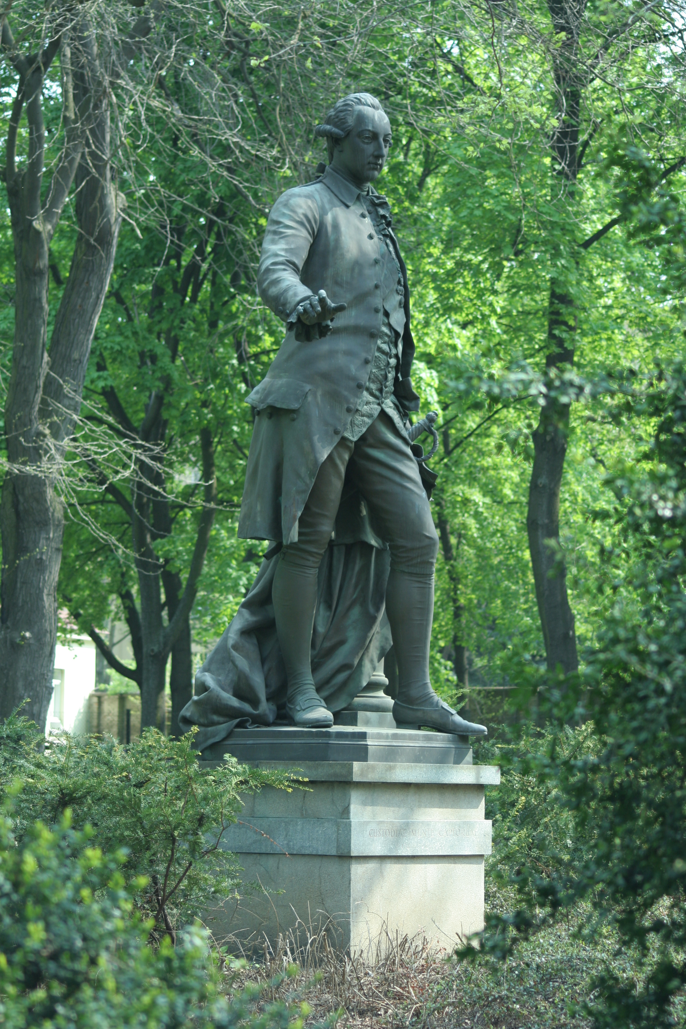 Josef II. monument in Brno